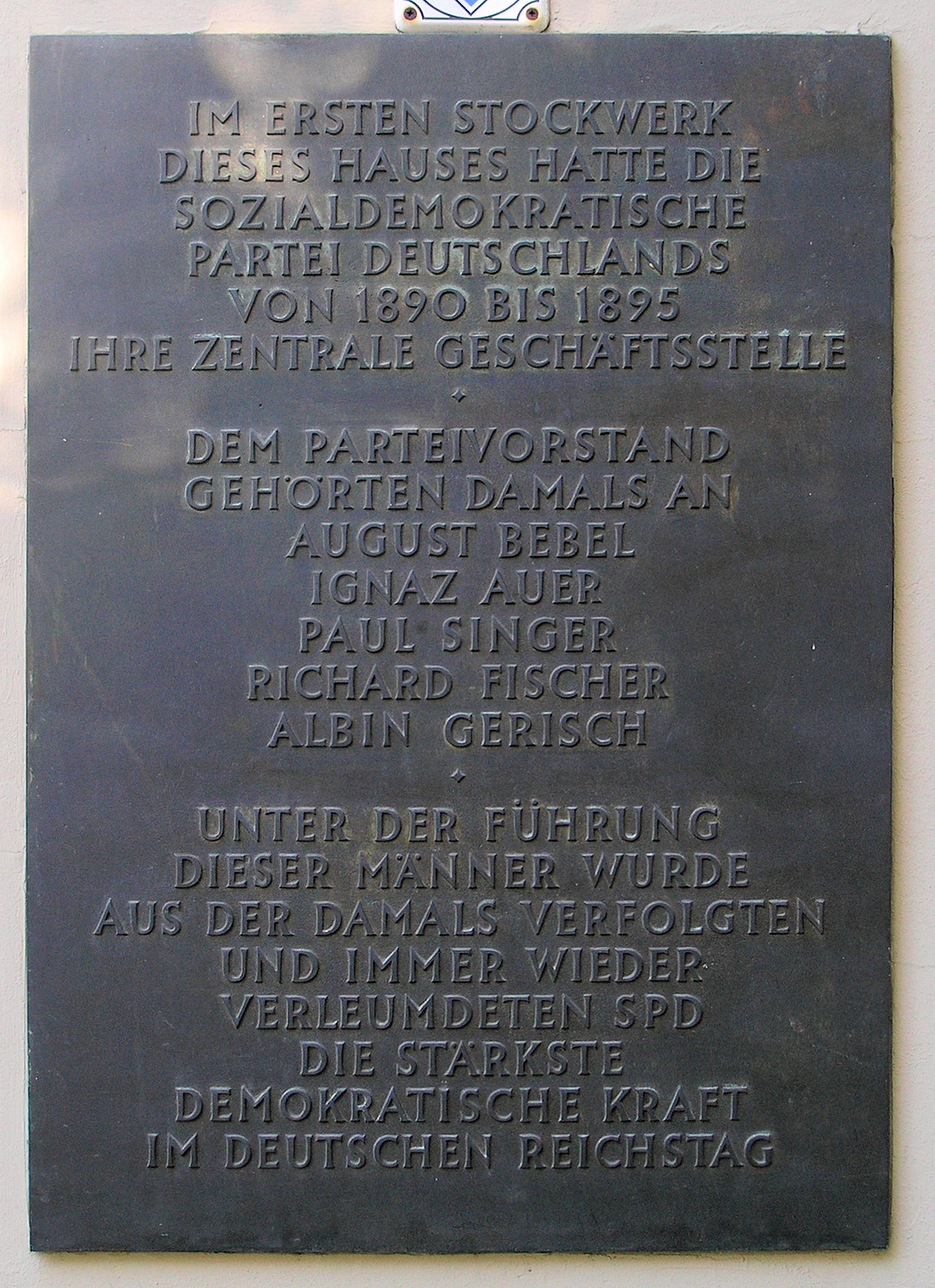 Memorial plaque, SPD, Katzbachstraße 9, Berlin-Kreuzberg, Germany Koordinate:52°29′23″N 13°22′35″E / 52.48972°N 13.37639°E